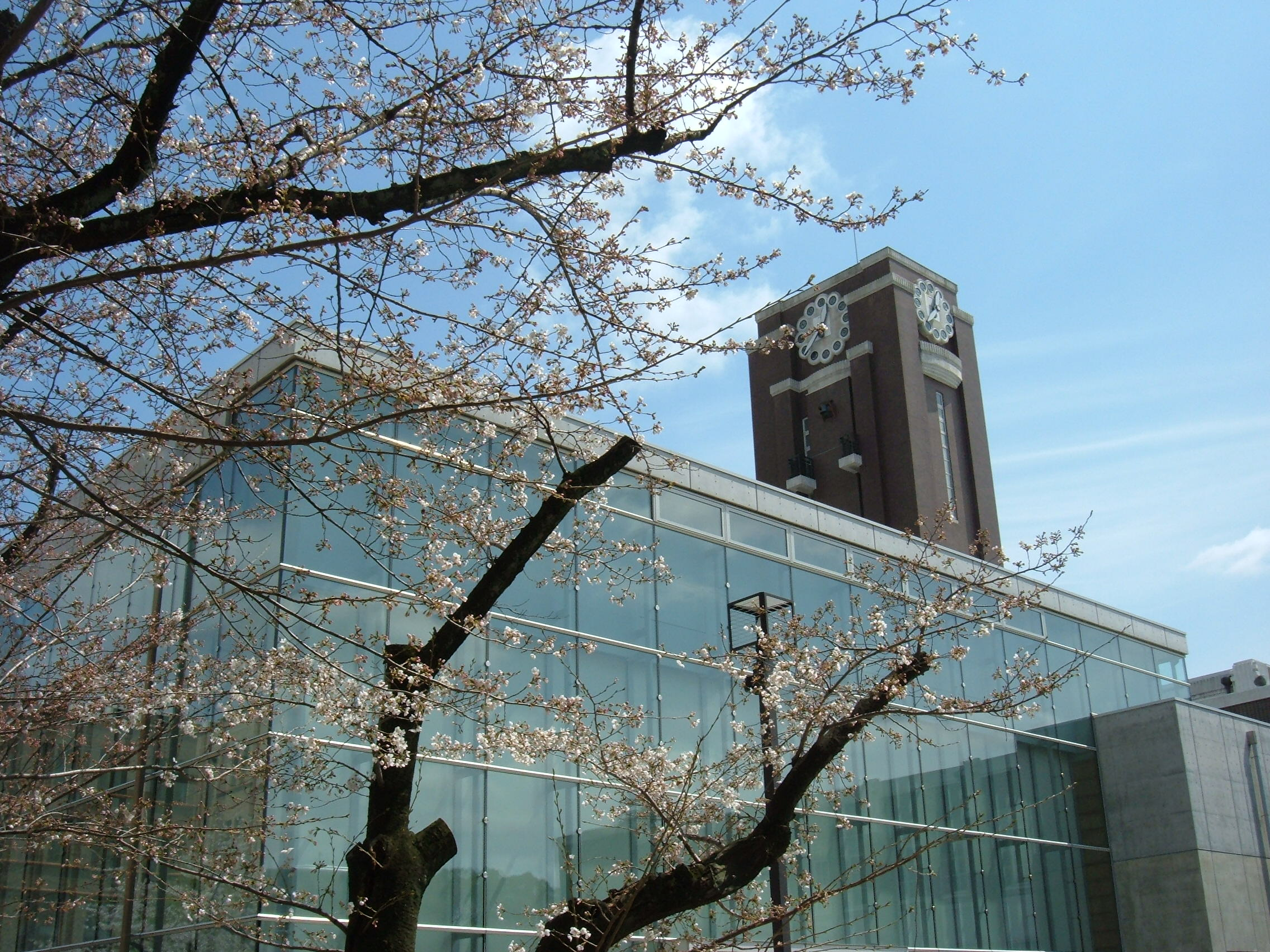 Clock Tower Centennial Hall, Kyoto University (Yoshida Main Campus) from northwest side.